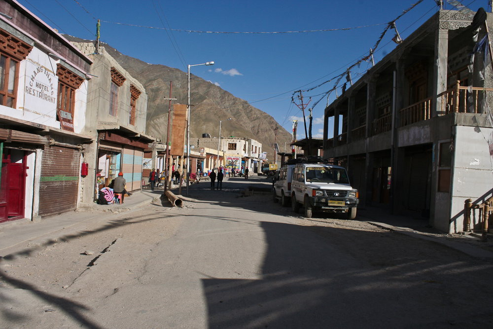 A street of Padum town in Zasnkar Valley